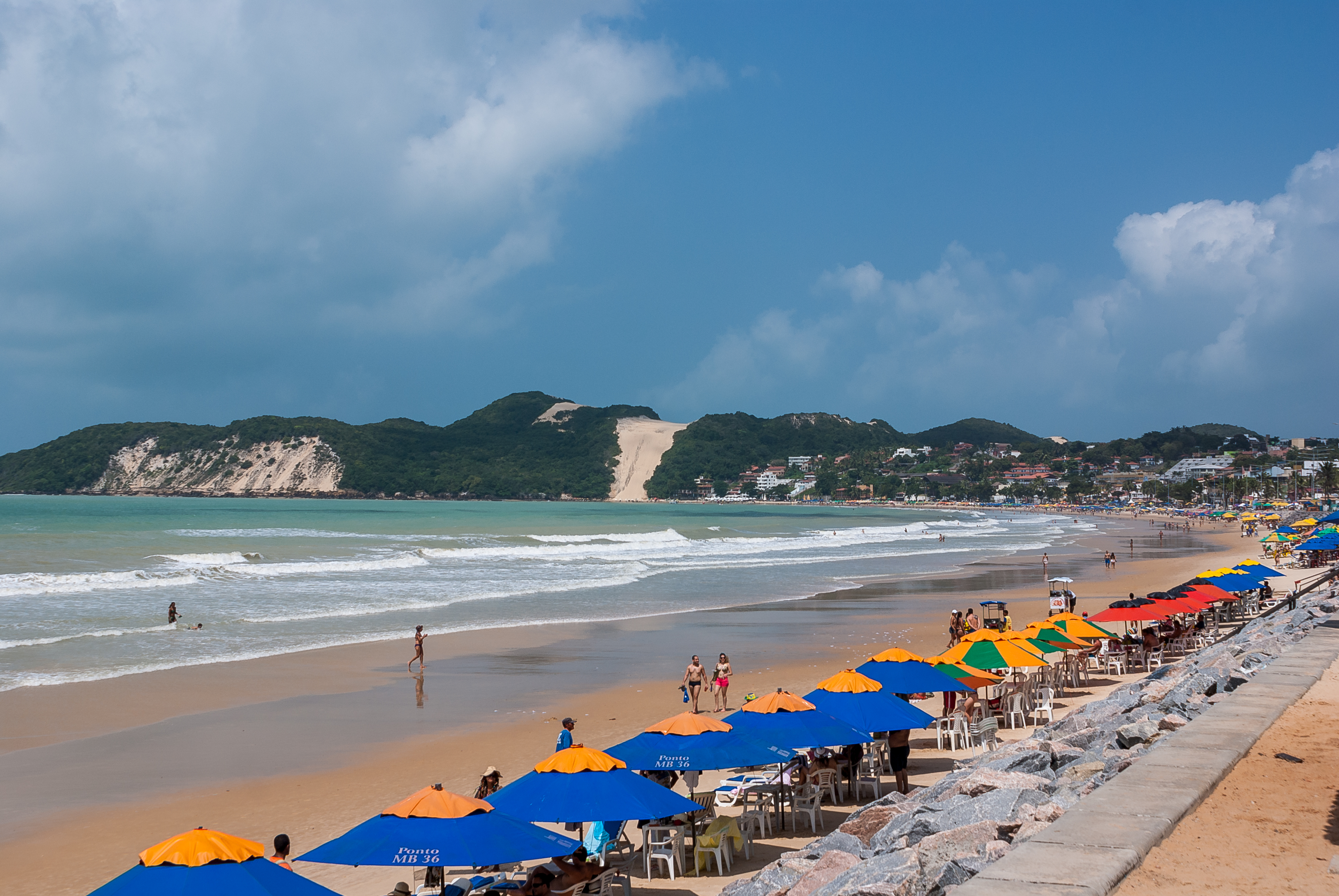 Ponta Negra beach with Careca hill visible in the background